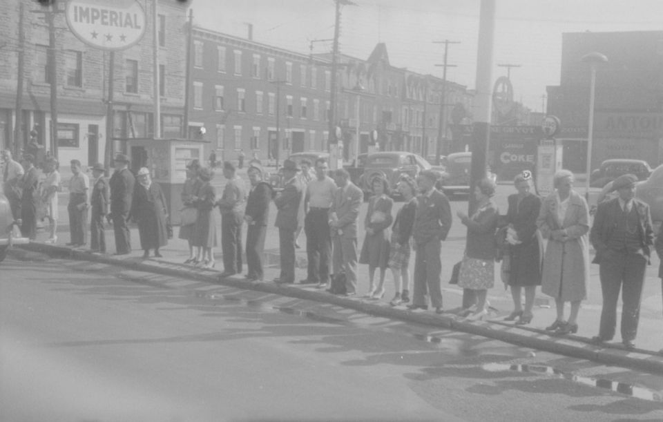 Passengers waiting streetcar in line on St. Laurent Boulevard near the Notre-Dame Street West in Montreal.